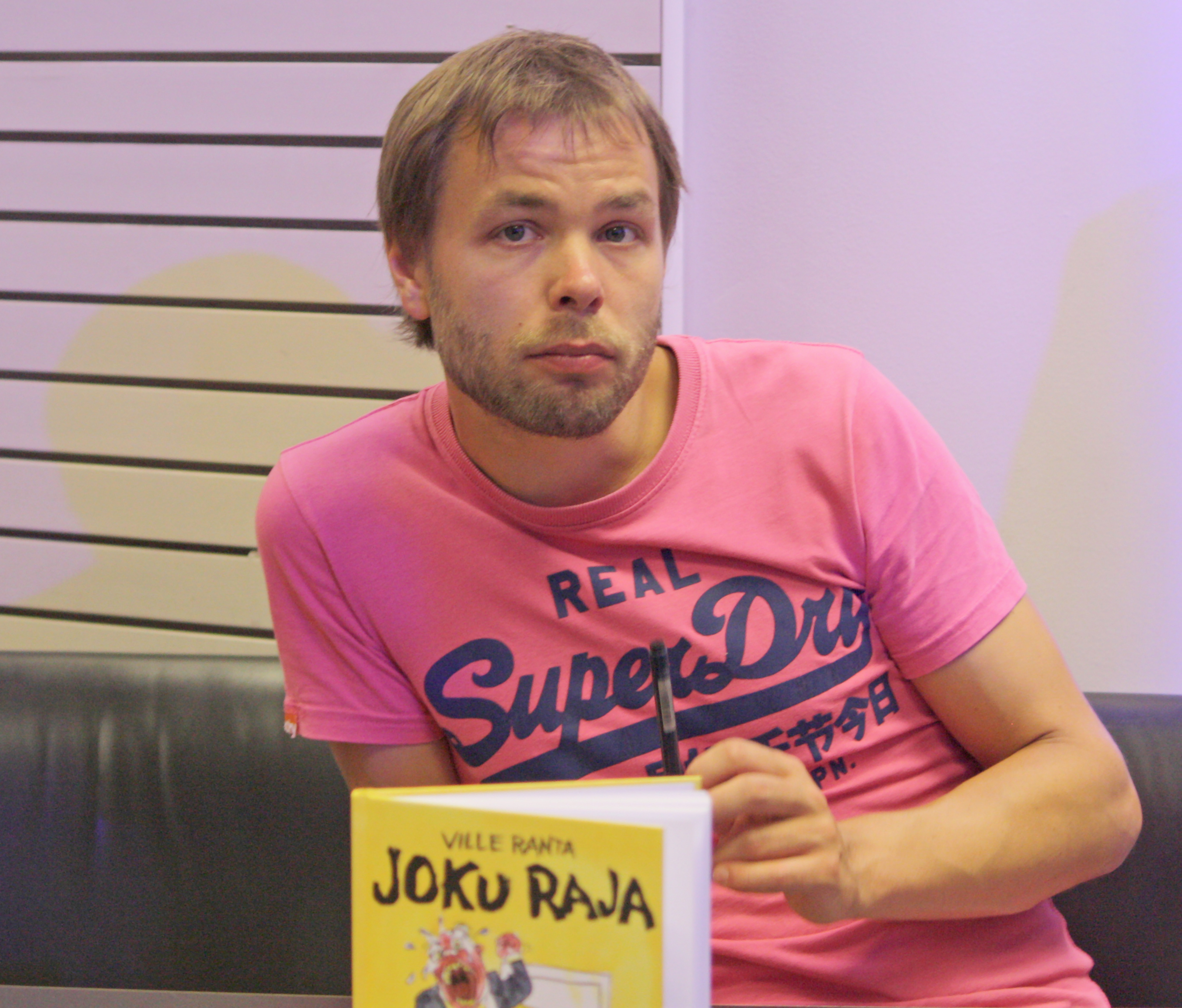 Finnish comics artist Ville Ranta on the Night of The Arts in Helsinki 2012